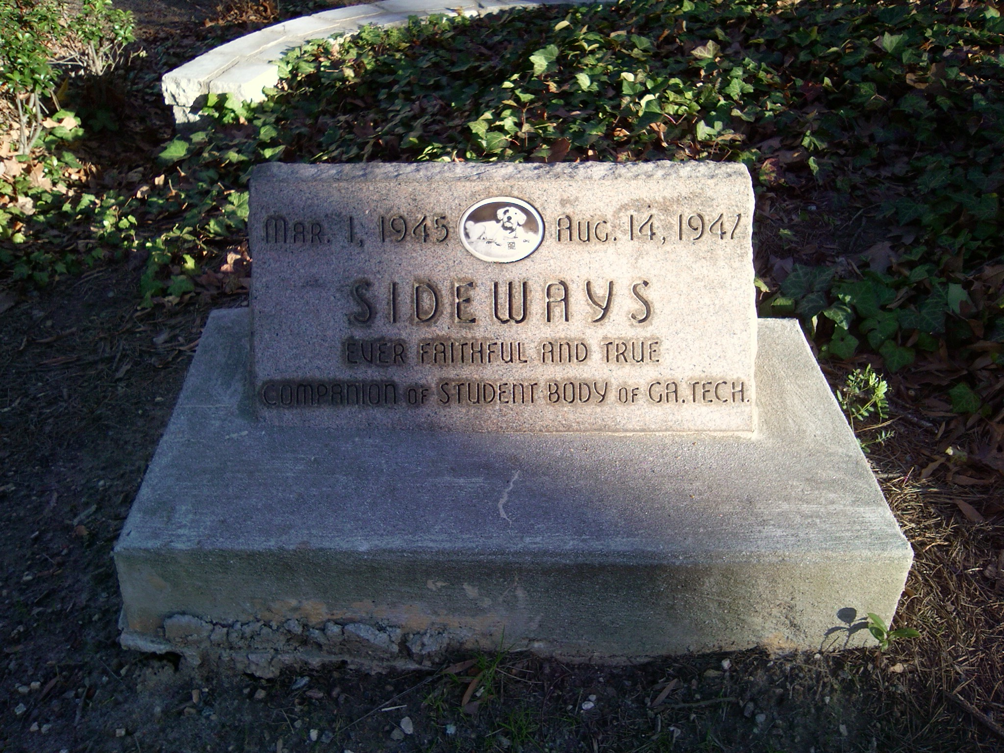 Photo of the headstone for Sideways the Dog. Taken outside of Tech Tower at the Georgia Institute of Technology. I took this photo in January 2007.